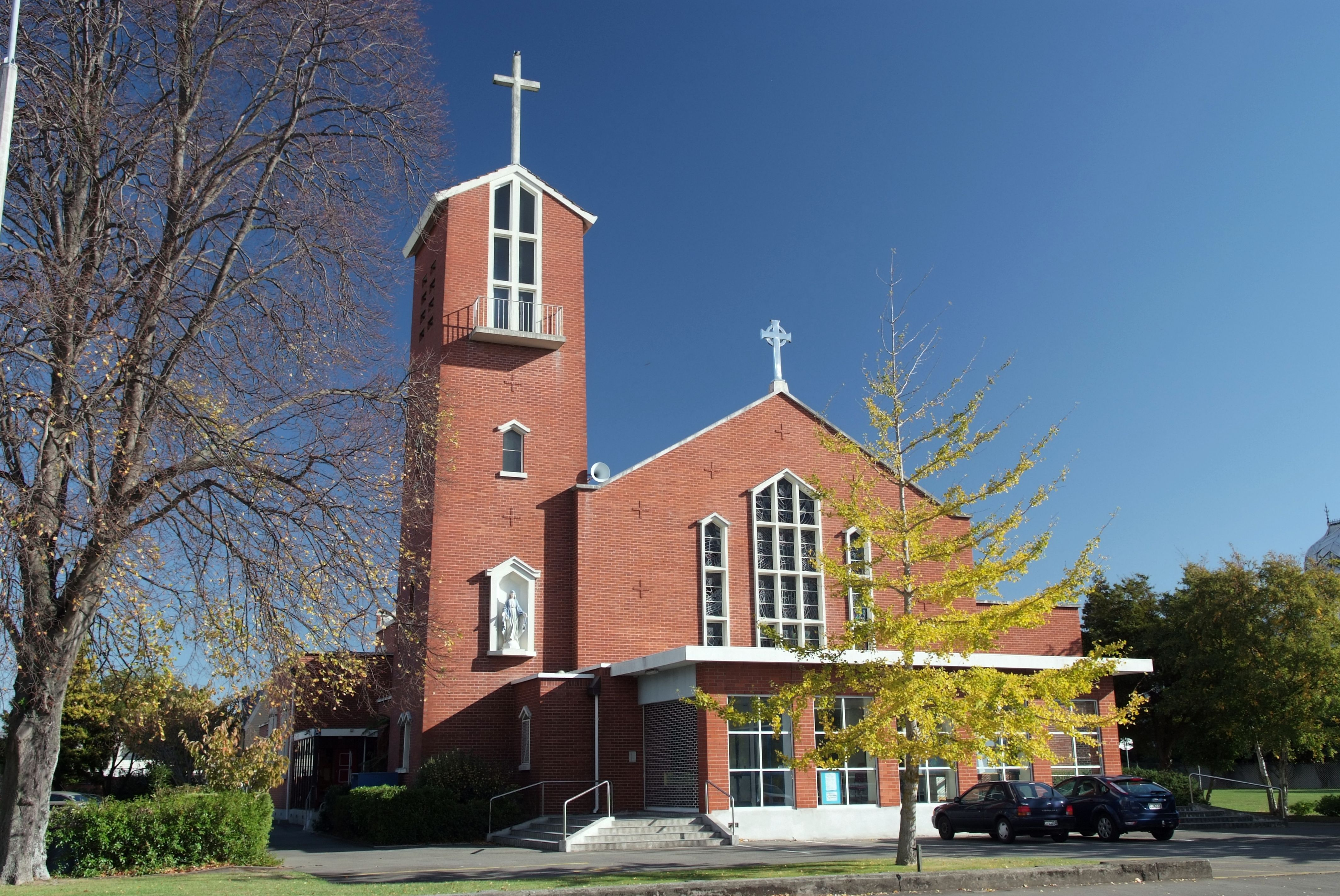 St Mary's Church in Manchester Street (opposite Abberdeen Street).